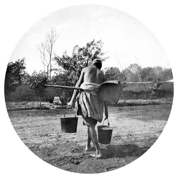 Чиназ 1890 г.